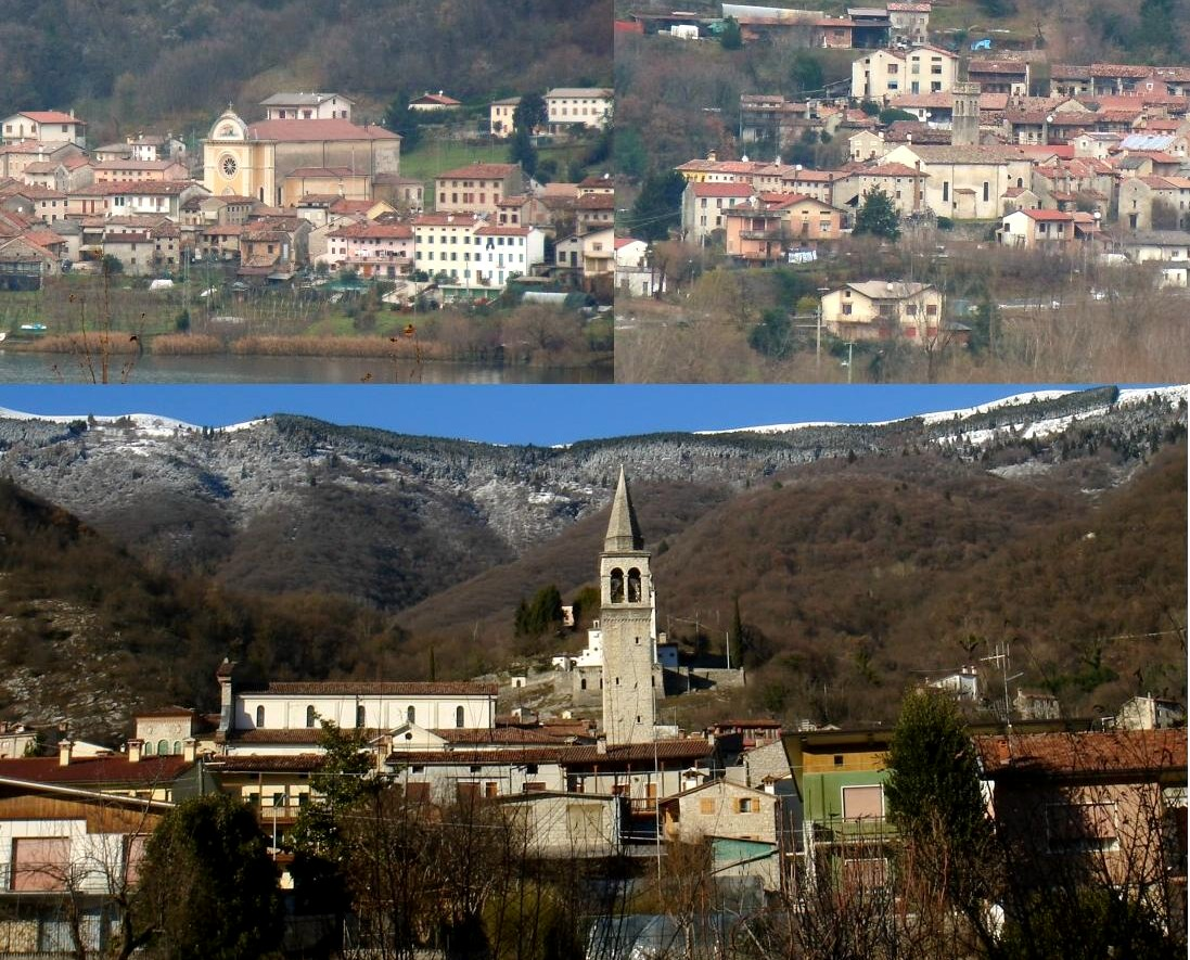 Lago, Santa Maria, Revine